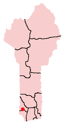 Dogbo-Tota, Benin Location Map; created with the GIMP. Made by User:Acntx.